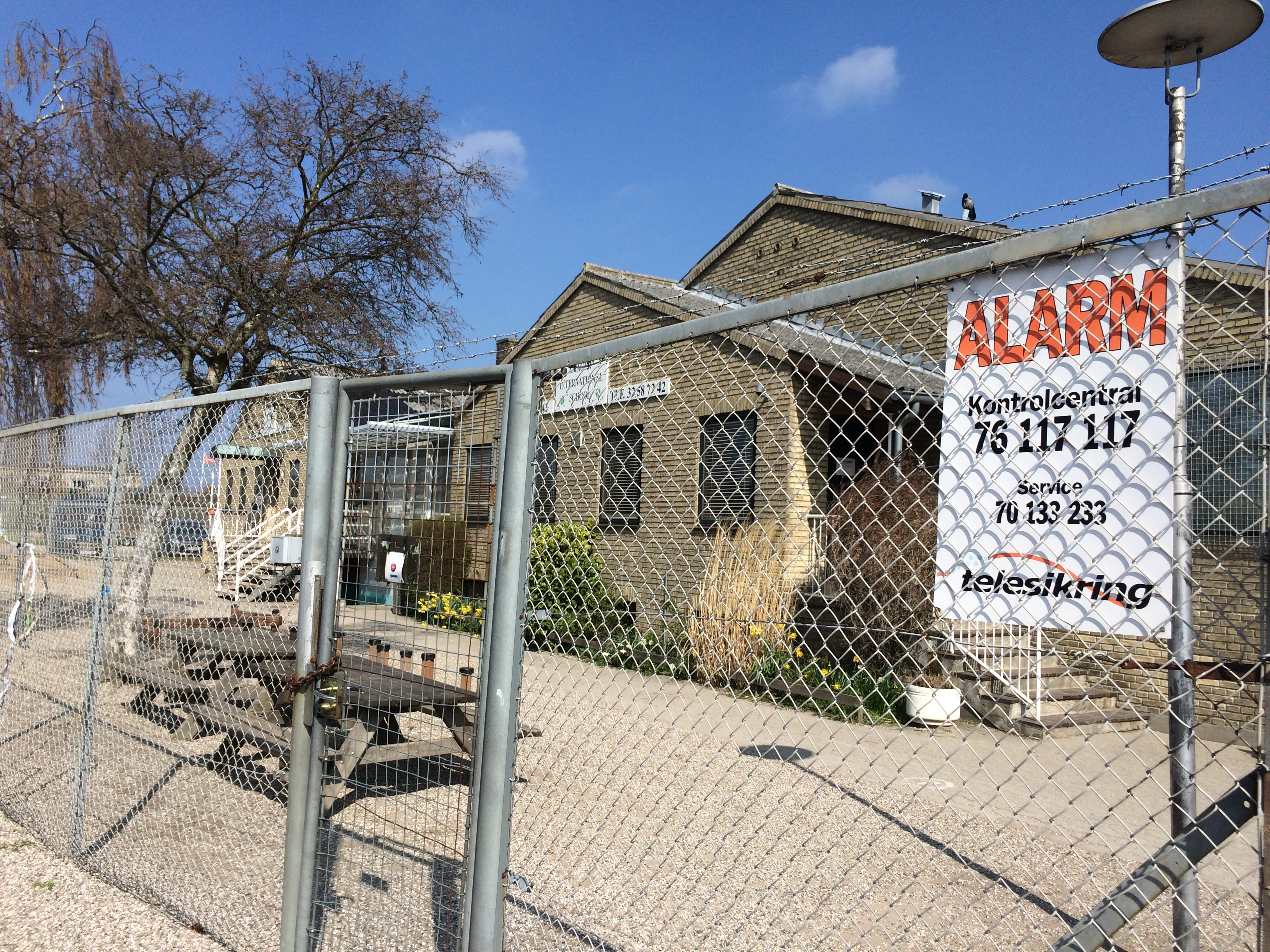 Amager International School in 2017